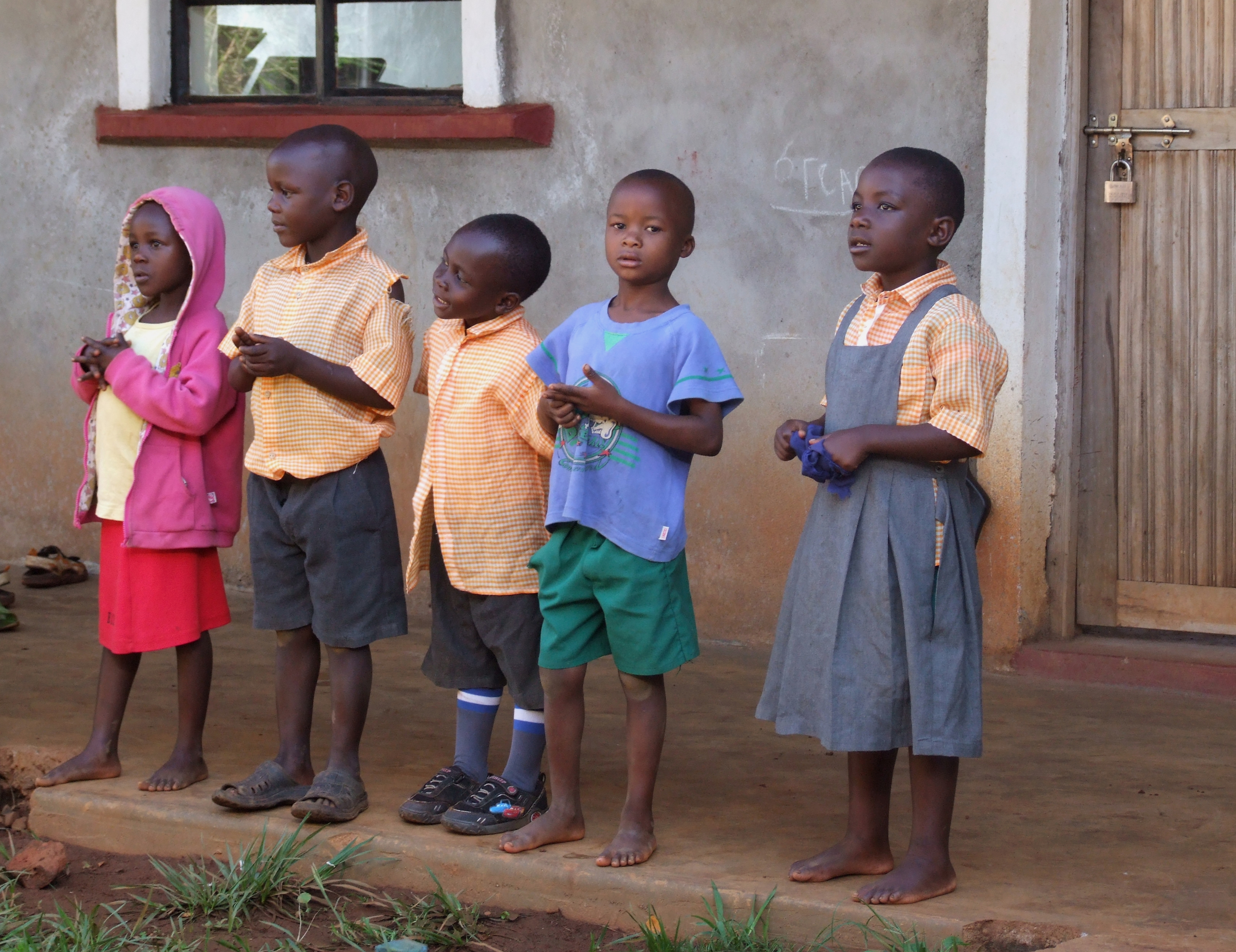 Orphan children in the Nyota daycare center in Lwala/Kenya